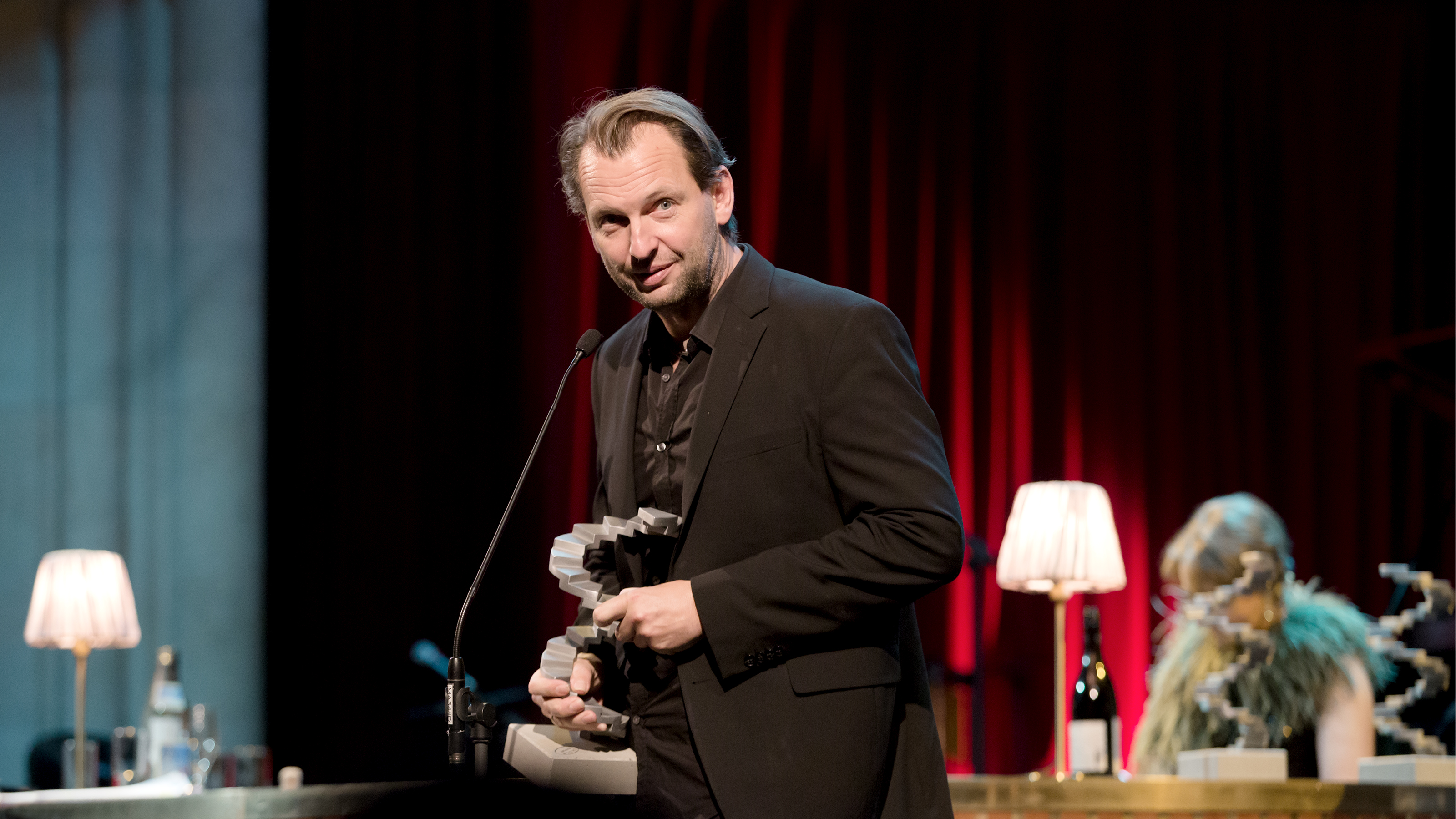 Austrian Film Awards 2017: Martin Gschlacht, winner for best cinematography (Stille Reserven); Rathaus, Vienna, Austria.